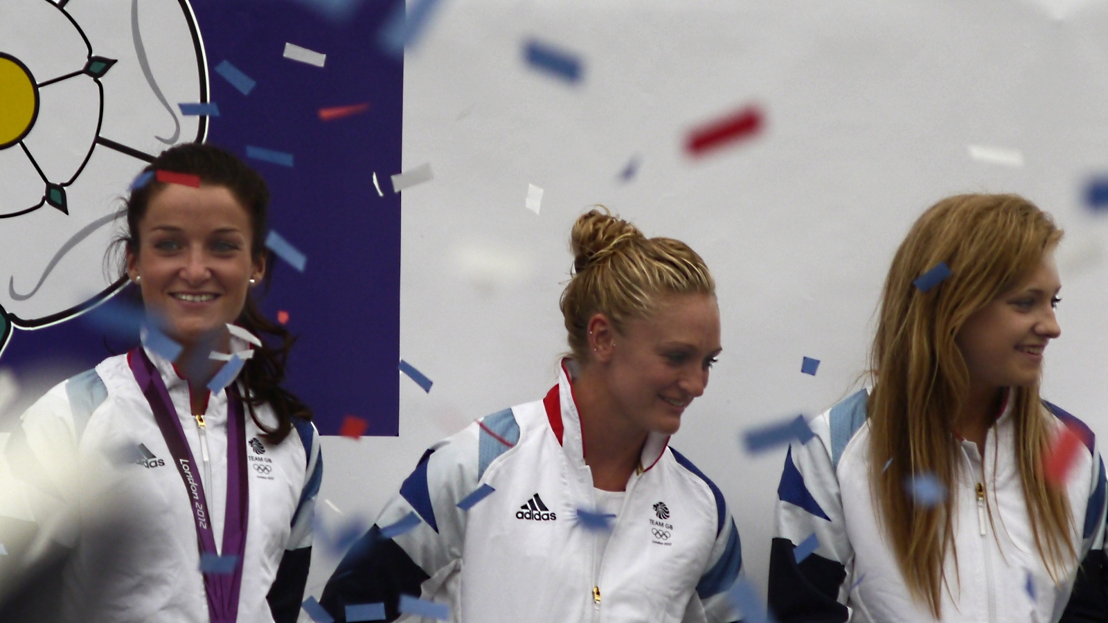 Liz Armitstead (road cycling silver medallist), Sarah Barrow and Alicia Blagg (Team GB divers) at the civic reception